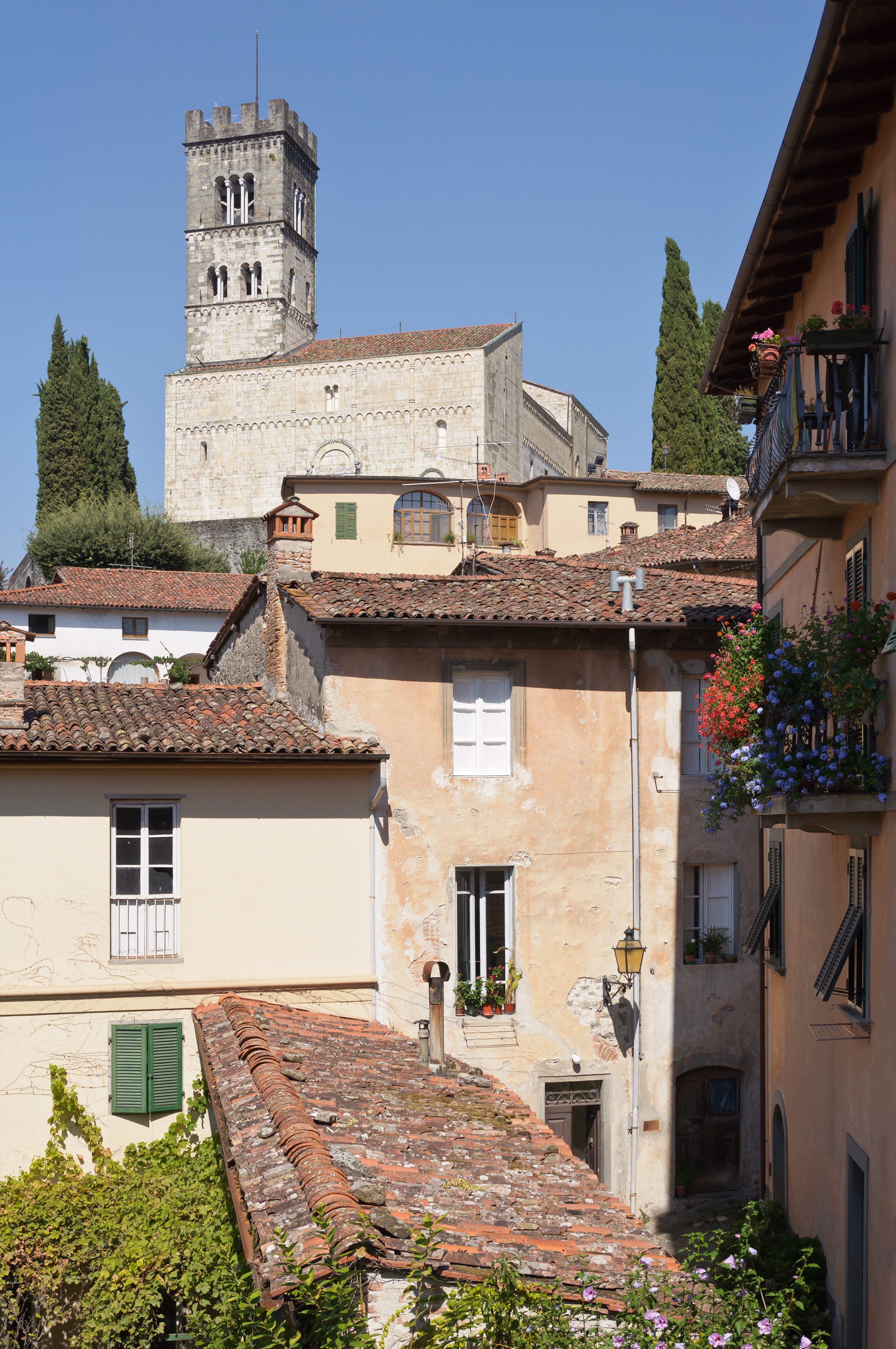 Barga, Tuscany, Italy, overlooked by the Duomo San Cristoforo.